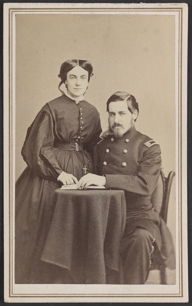 Portrait photograph of an American civil war officer in uniform of a Union Lieutenant Colonel and his wife